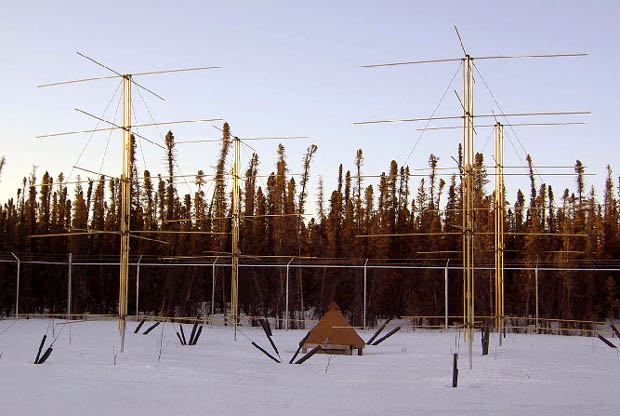 The 30 MHz HAARP Riometer. It uses a 2 X 2 array of five element yagi antennas.